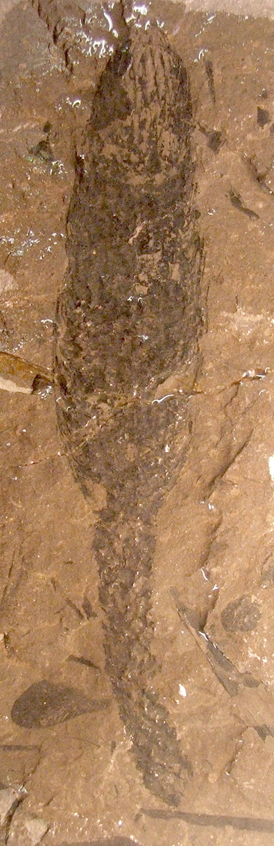 Lepidostrobus variabilis, from the coal measures of Newcastle. Specimen stored in the Sedgwick museum, Cambridge. Moistened with water before photography.